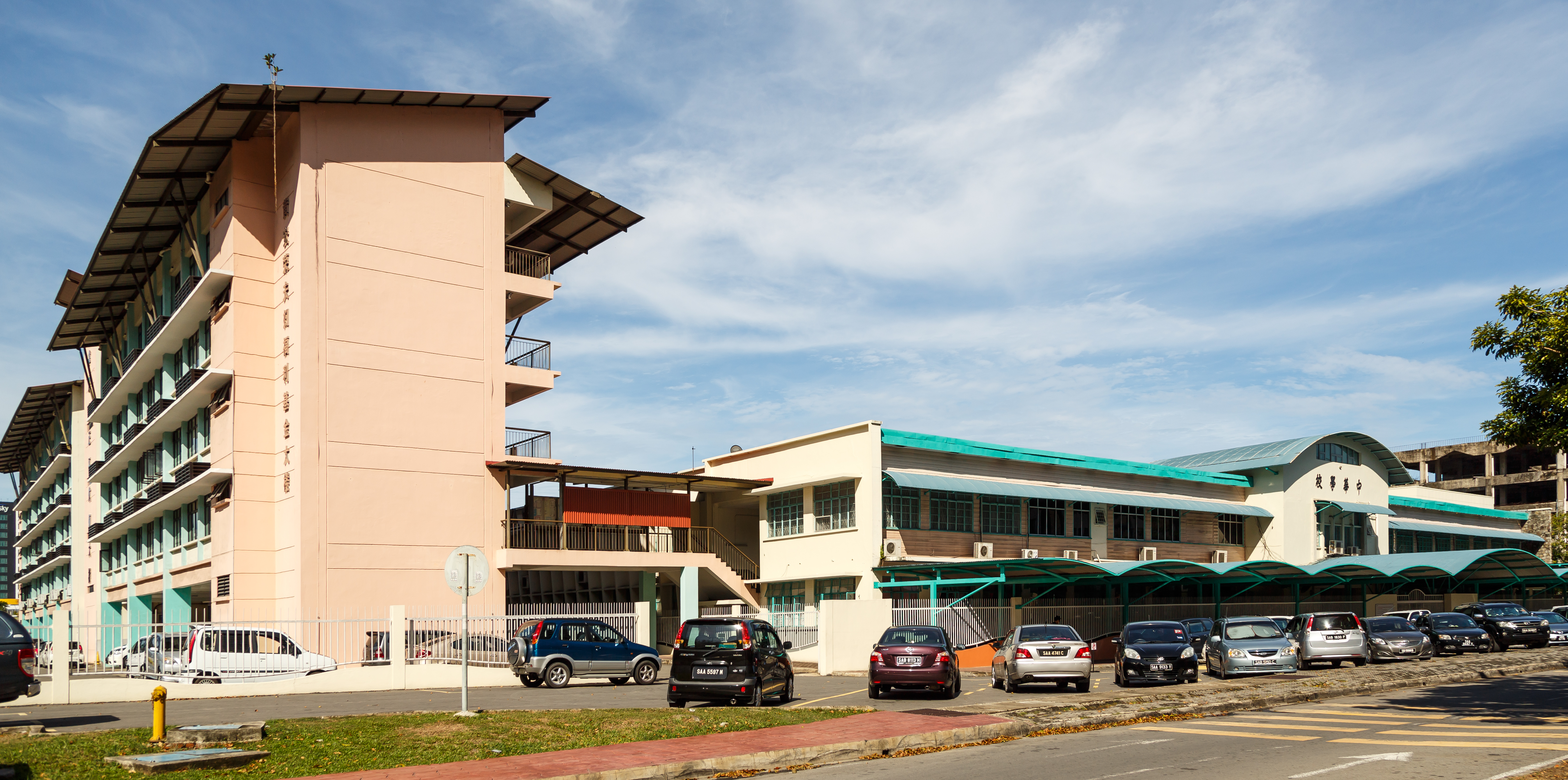 Kota Kinabalu, Sabah: Sekolah Jenis Rendah Kebangsan (C) Hwa Chung, a chinese national type school in Malaysia